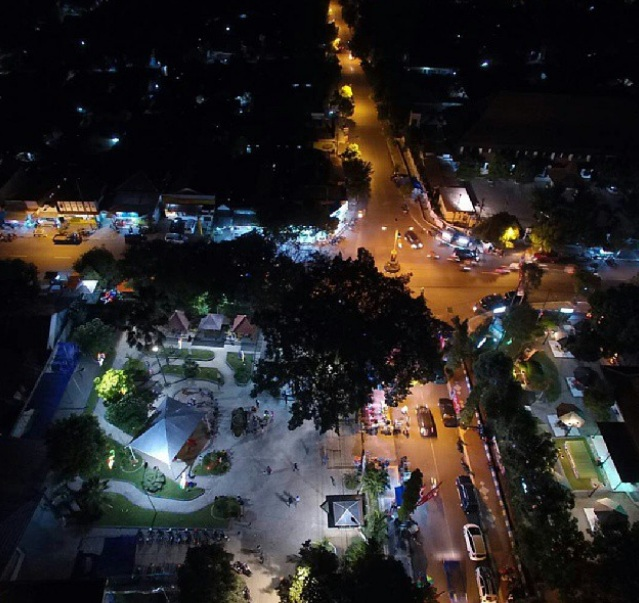 Alun-alun ngawi